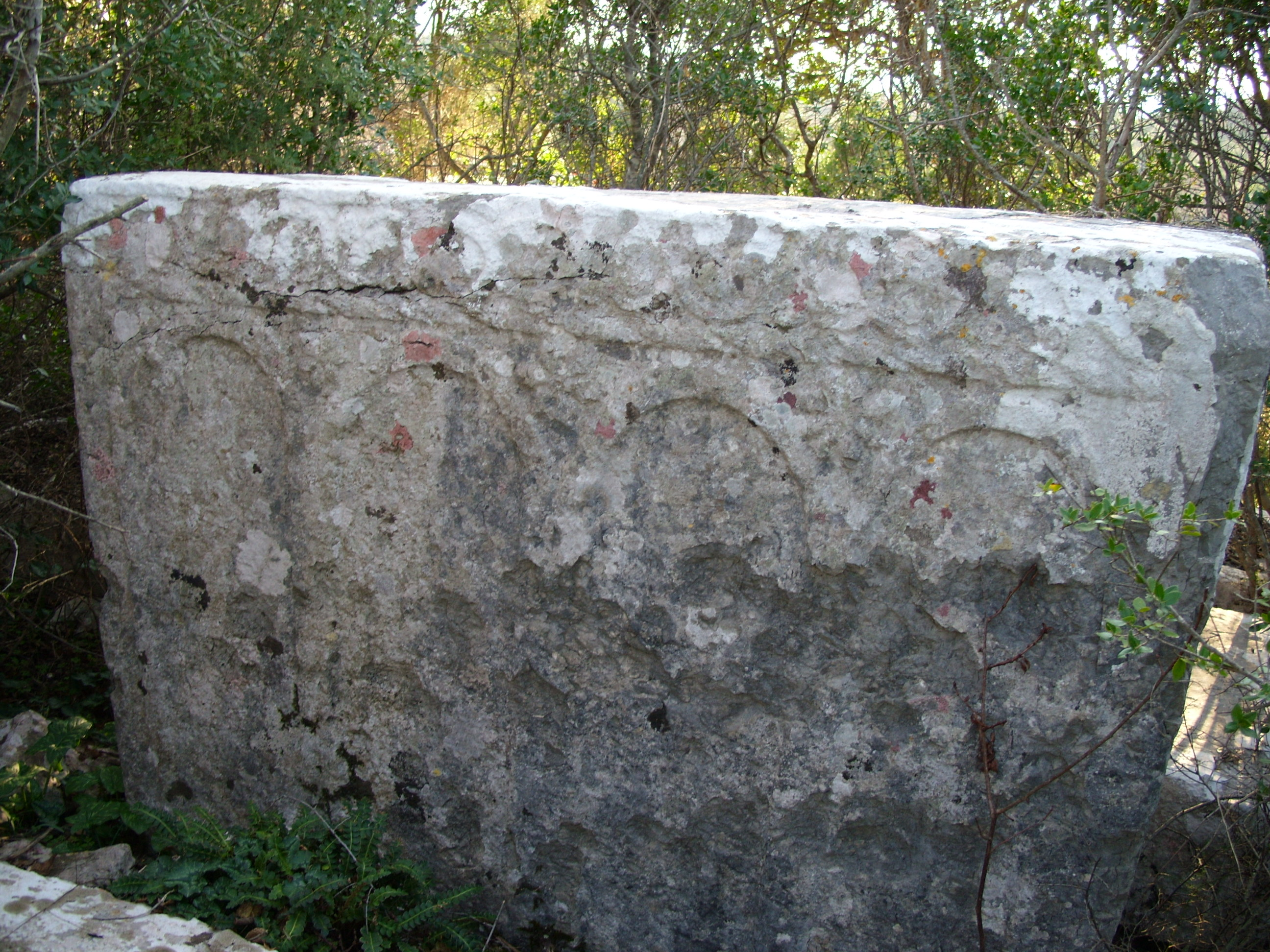 Stećak in the cemetery of the village Začula